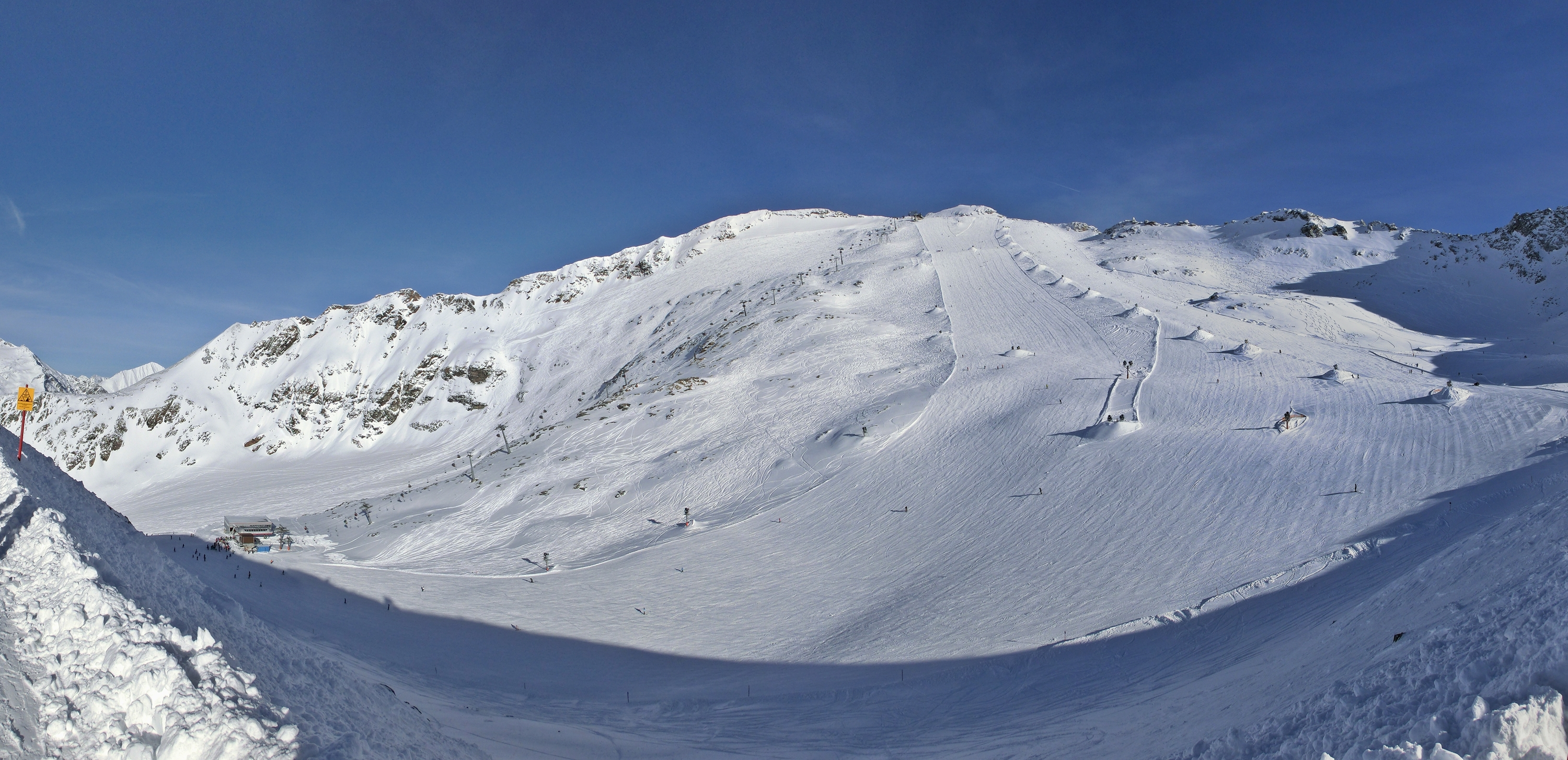 Ski piste and ski lifts at Mölltaler Gletscher, Carinthia.